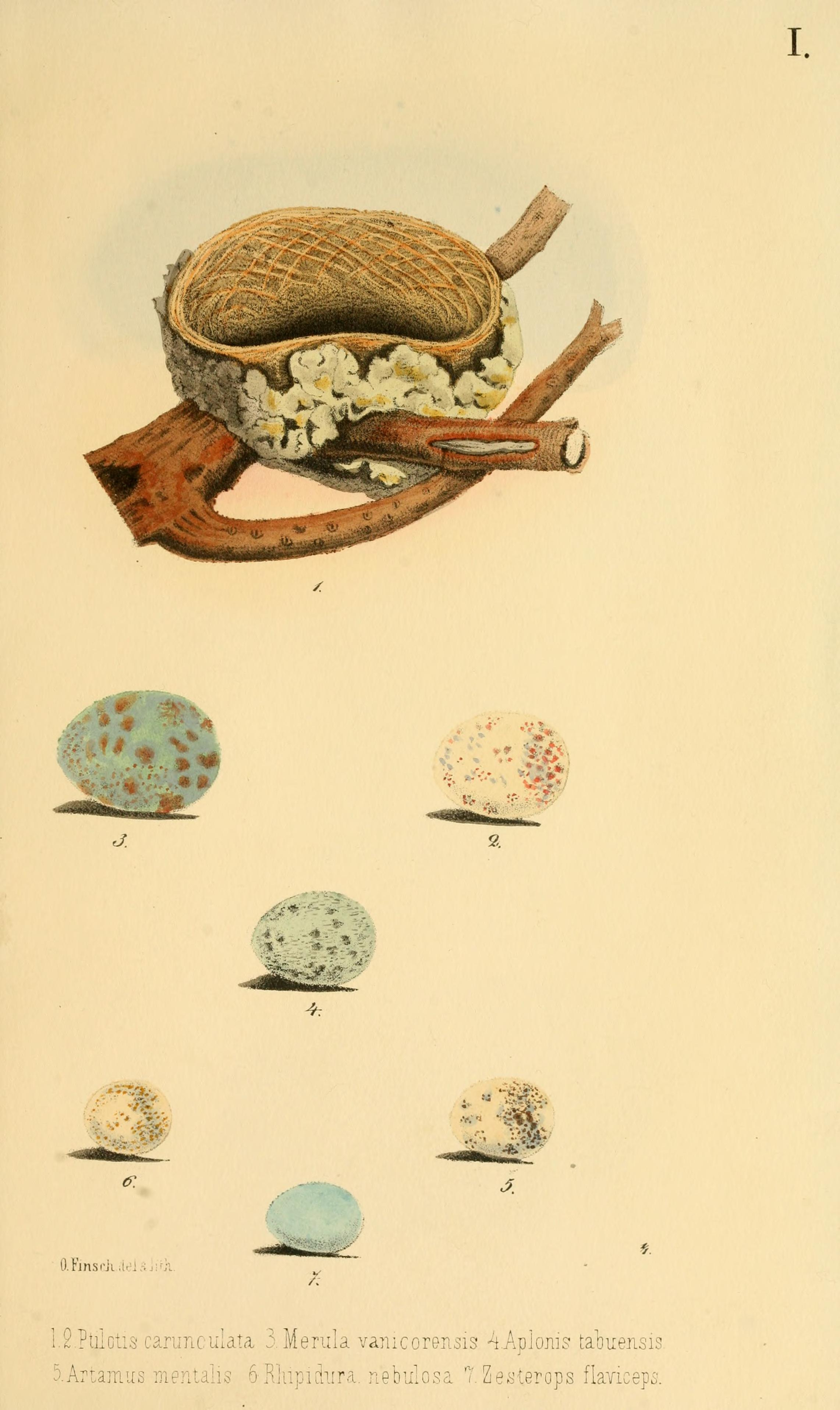 Hartlaub and Finsch Beitrag zur fauna Centralpolynesiens. Ornithologie der Viti, Samoa und Tongainseln Plate 1 Tafel I. Fig. 1. Ptilotis carunculata (Bremen Mus.) Valid name Foulehaio carunculatus (Gmelin, 1788) Fig. 2. Ptilotis carunculata (Mus. Godeffroy) Valid name Foulehaio carunculatus (Gmelin, 1788) Fig. 3. Merula vanicorensis. Quoy. Synonym Turdus vanikorensis Synonym Merula samoensis Synonym Valid name Turdus poliocephalus samoensis Tristram, 1879 Fig 4. Aplonis tabuensis Gml. (Brem. Mus.) Valid name Prosopeia tabuensis (Gmelin, 1788) Fig. 5. Artamus mentalis Jard. (Mus. Godeffroy) Artamus mentalis Jardine, 1845 Fig. 6. Rhipidura nebulosa Peale. Valid name Rhipidura nebulosa Peale, 1848 Fig. 7. Zosterops flaviceps. Peale. Valid name Zosterops lateralis flaviceps Peale, 1848